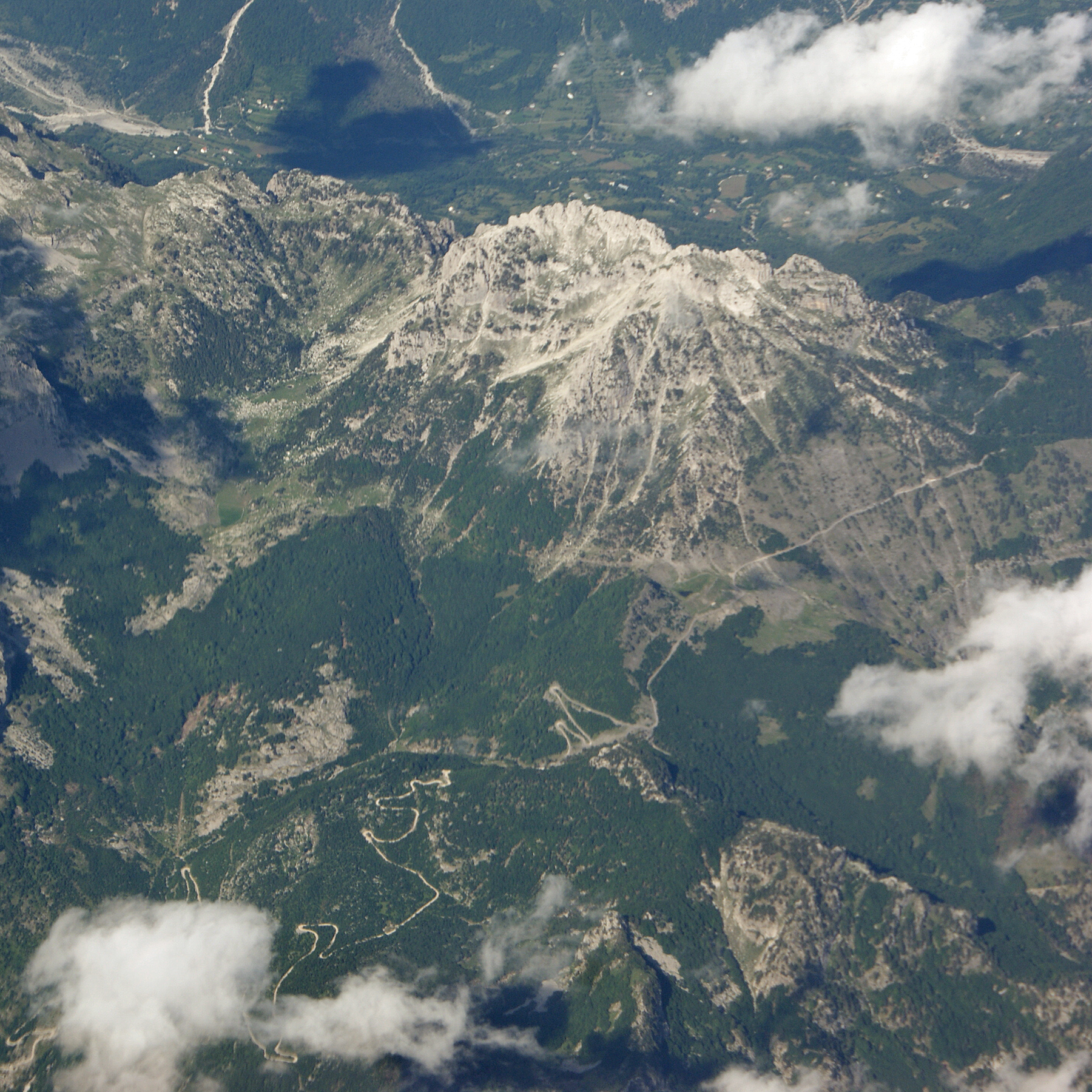 Aerial view of mountain pass Buni i Thorës in Albanian Alps. Theth in the background.